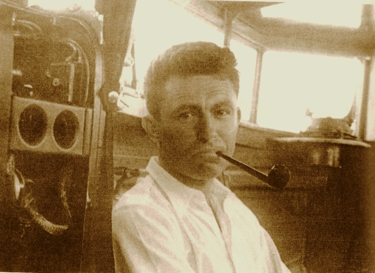 Henri Ezan